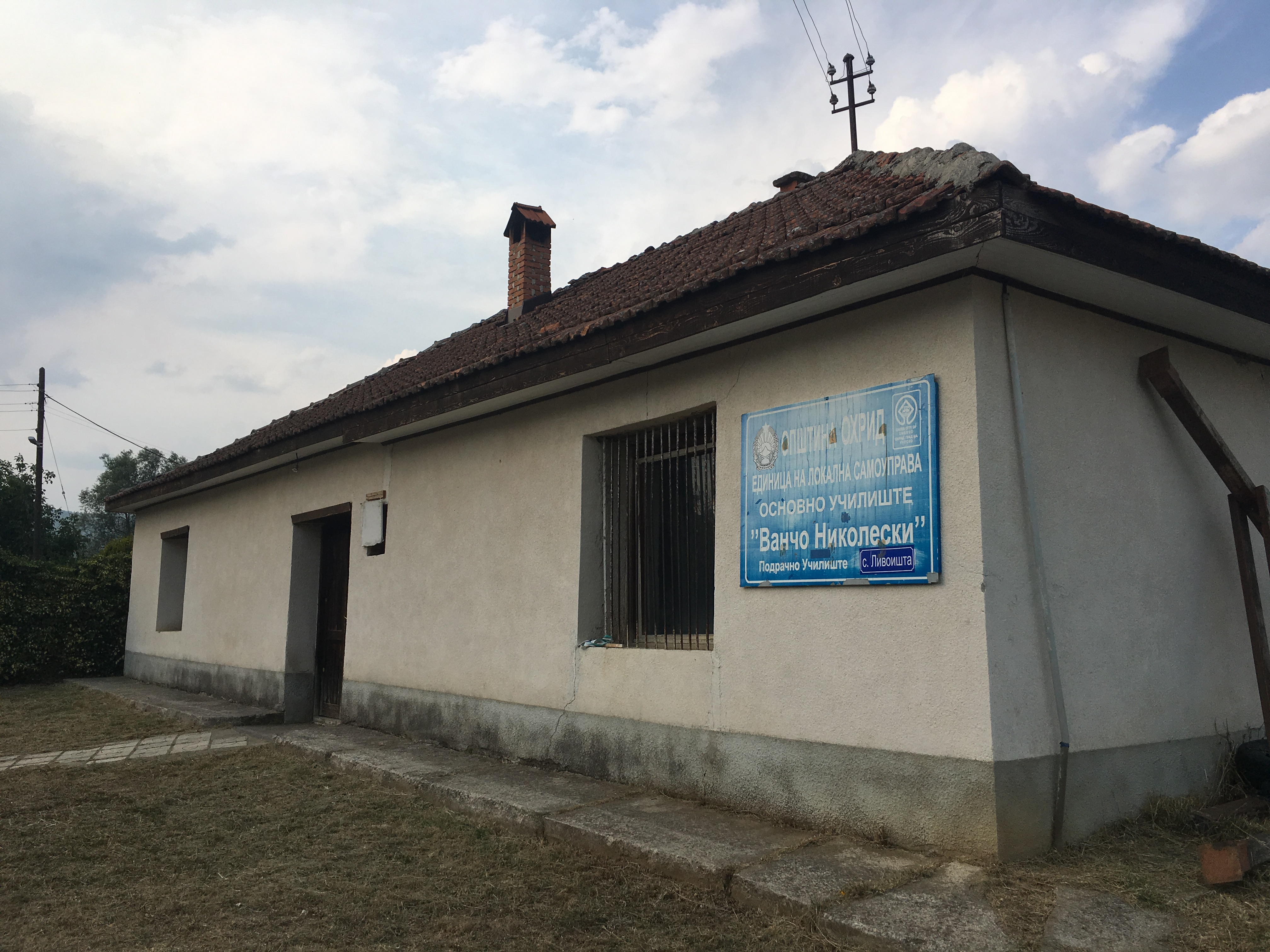 Vančo Nikoleski Primary School in the village of Livoišta